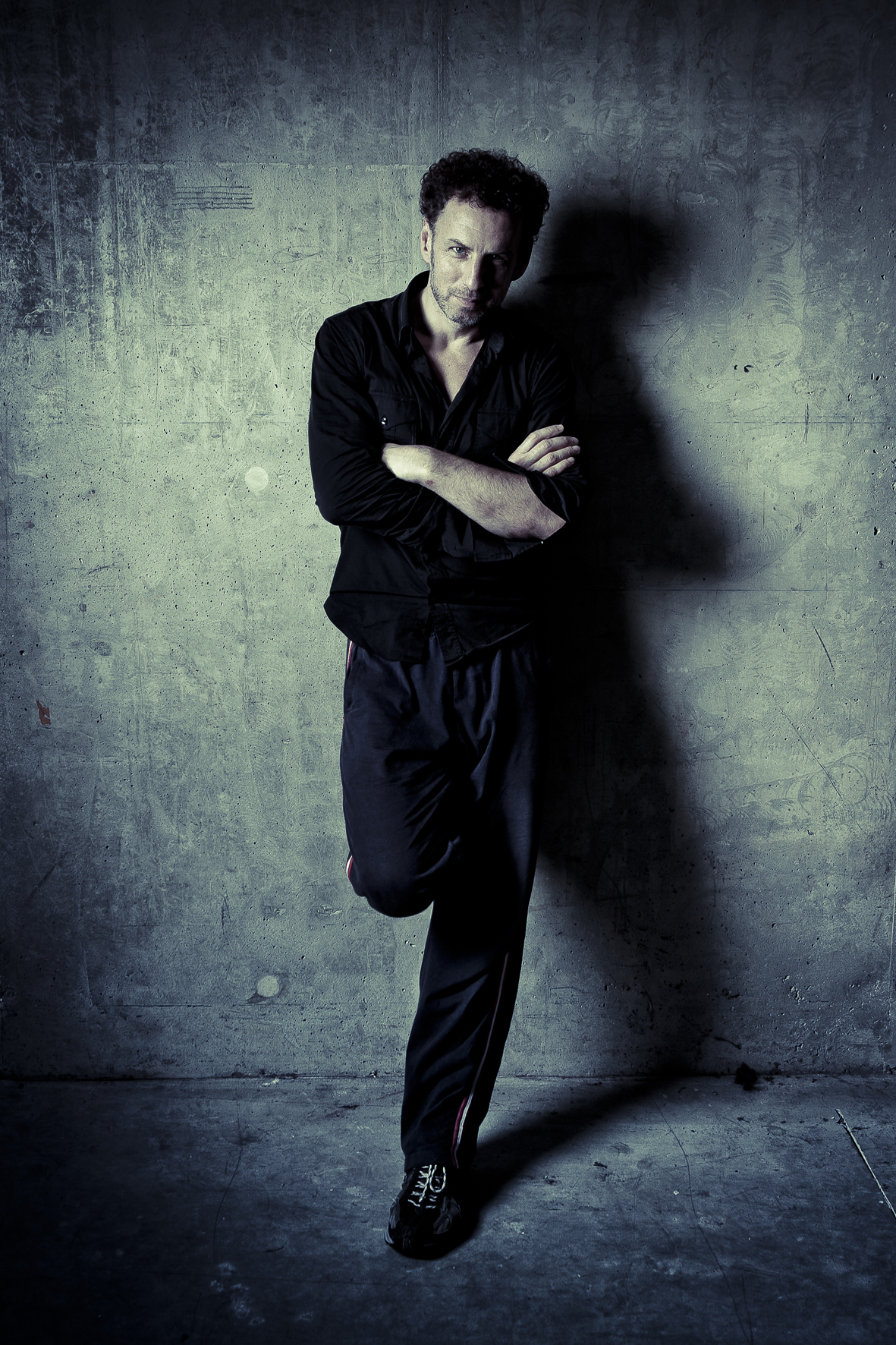 Portrait of Wim Vandekeybus